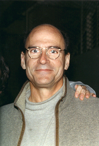 James Taylor in 1999